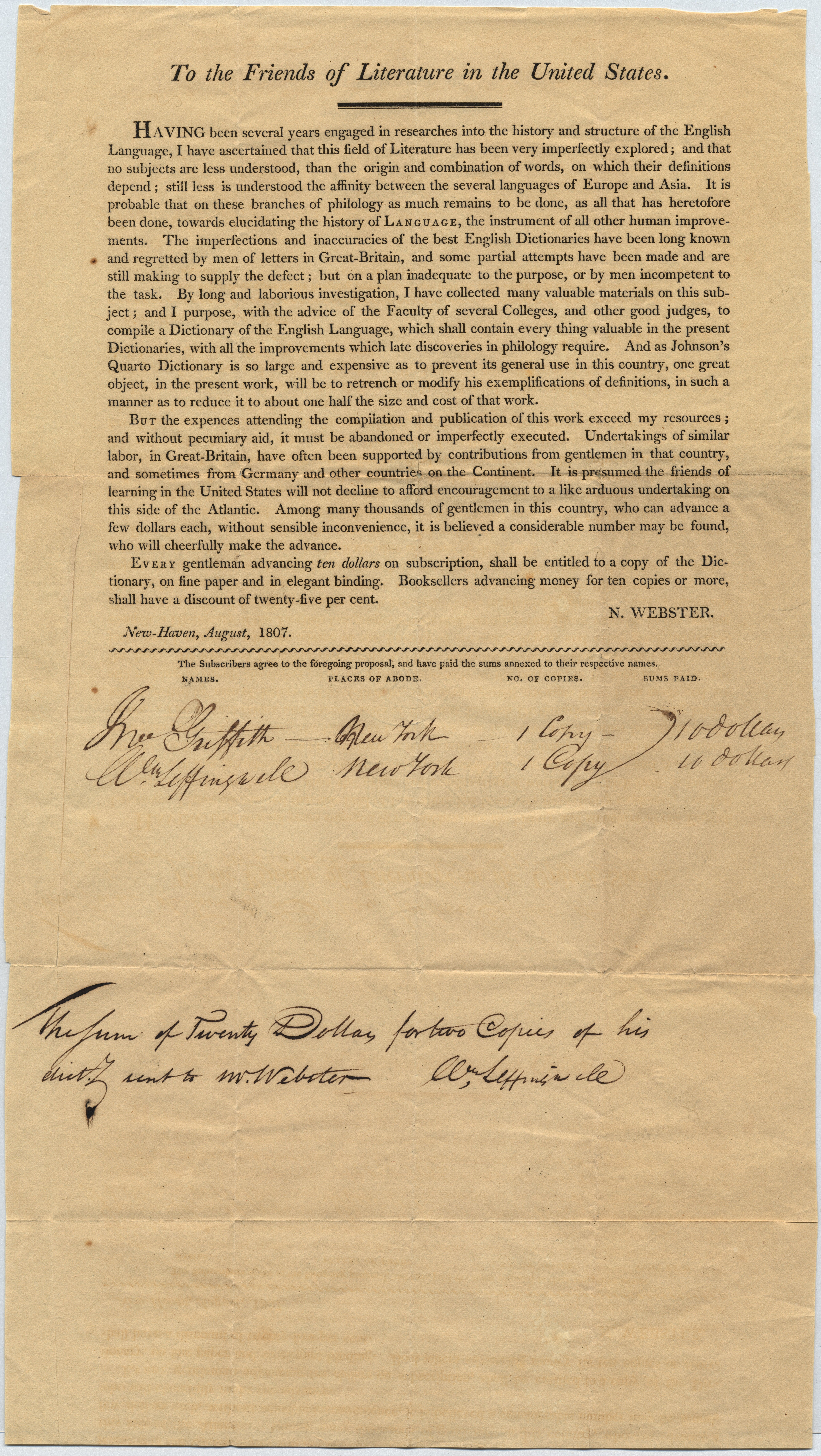 Prospectus by Noah Webster for his first English language dictionary, entitled "To the Friends of Literature in the United States." Courtesy of the Webster Family Papers, Yale University Manuscripts & Archives Digital Images Database, Yale University, New Haven, Connecticut.